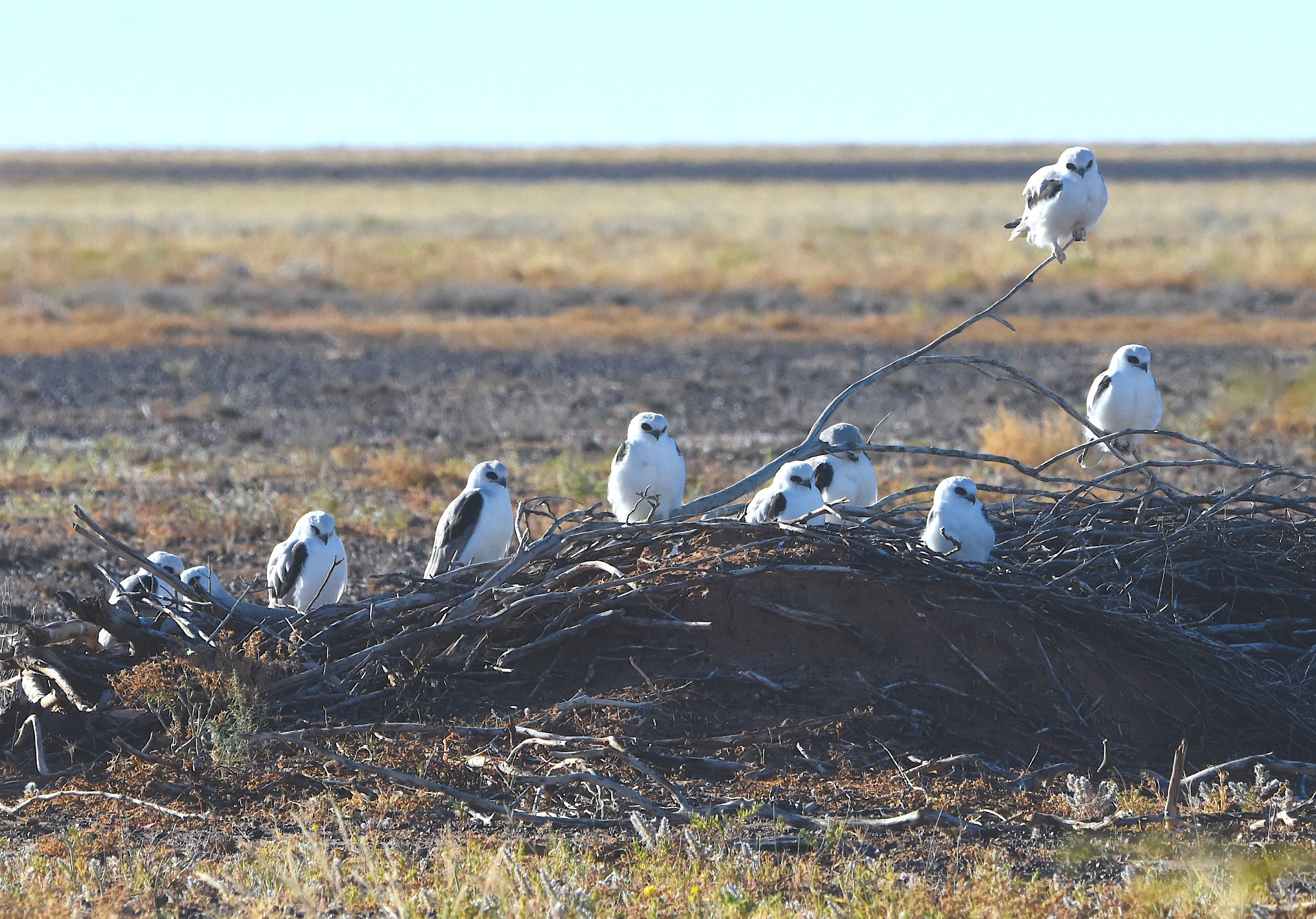 A colony of Letter-winged Kites, possibly gathering for breeding purposes, warming in the sun on a cold winters day.